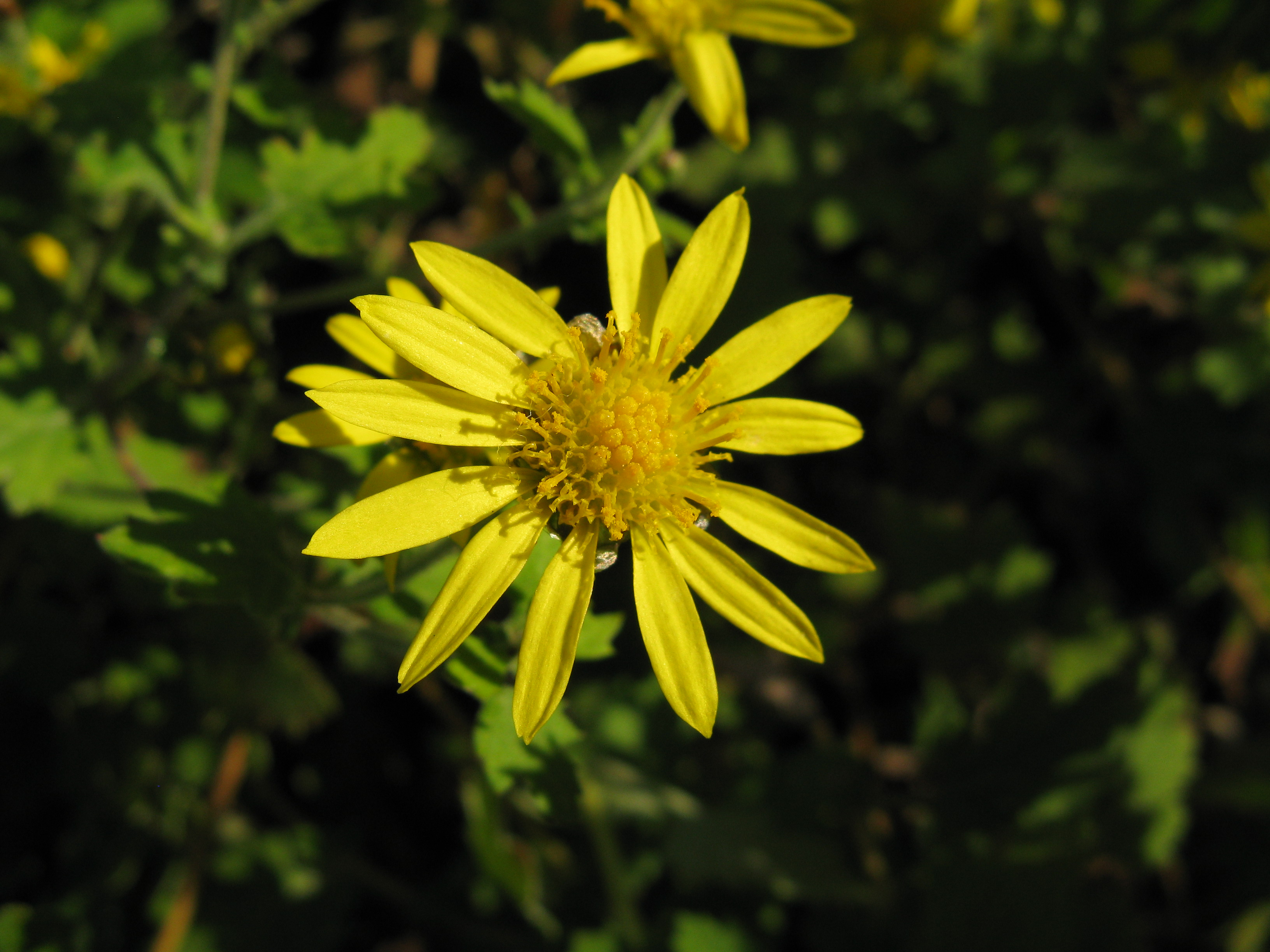 Chrysanthemum indicum